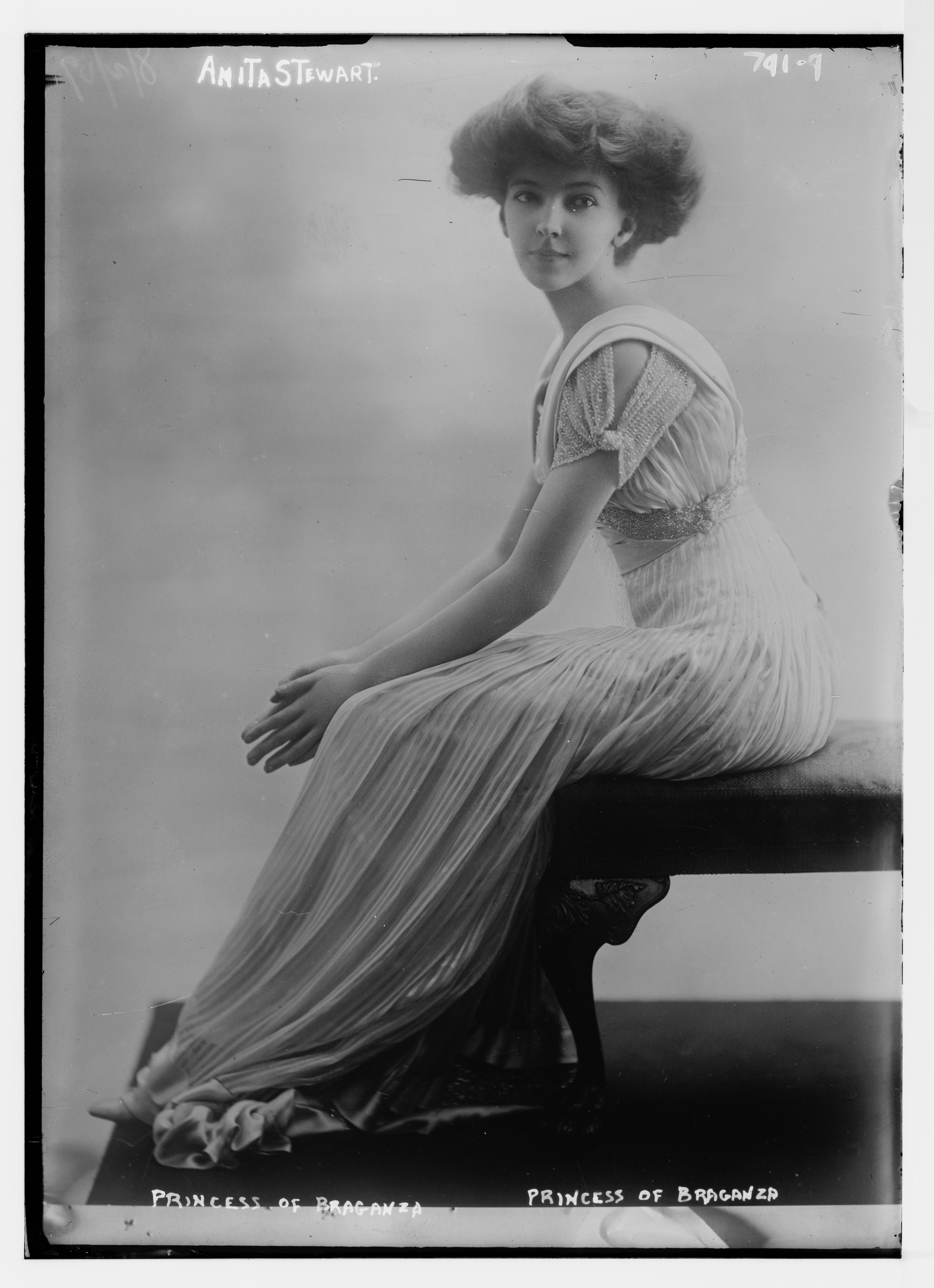 Anita Stewart, seated, Princess of Braganza